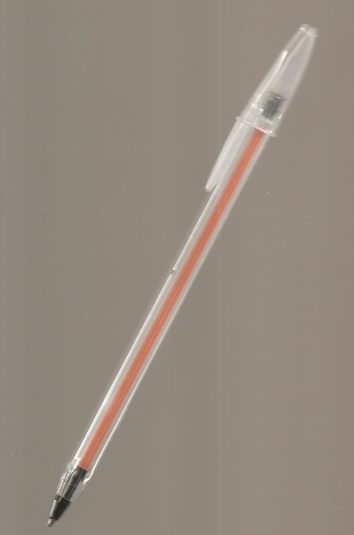 Bic pen